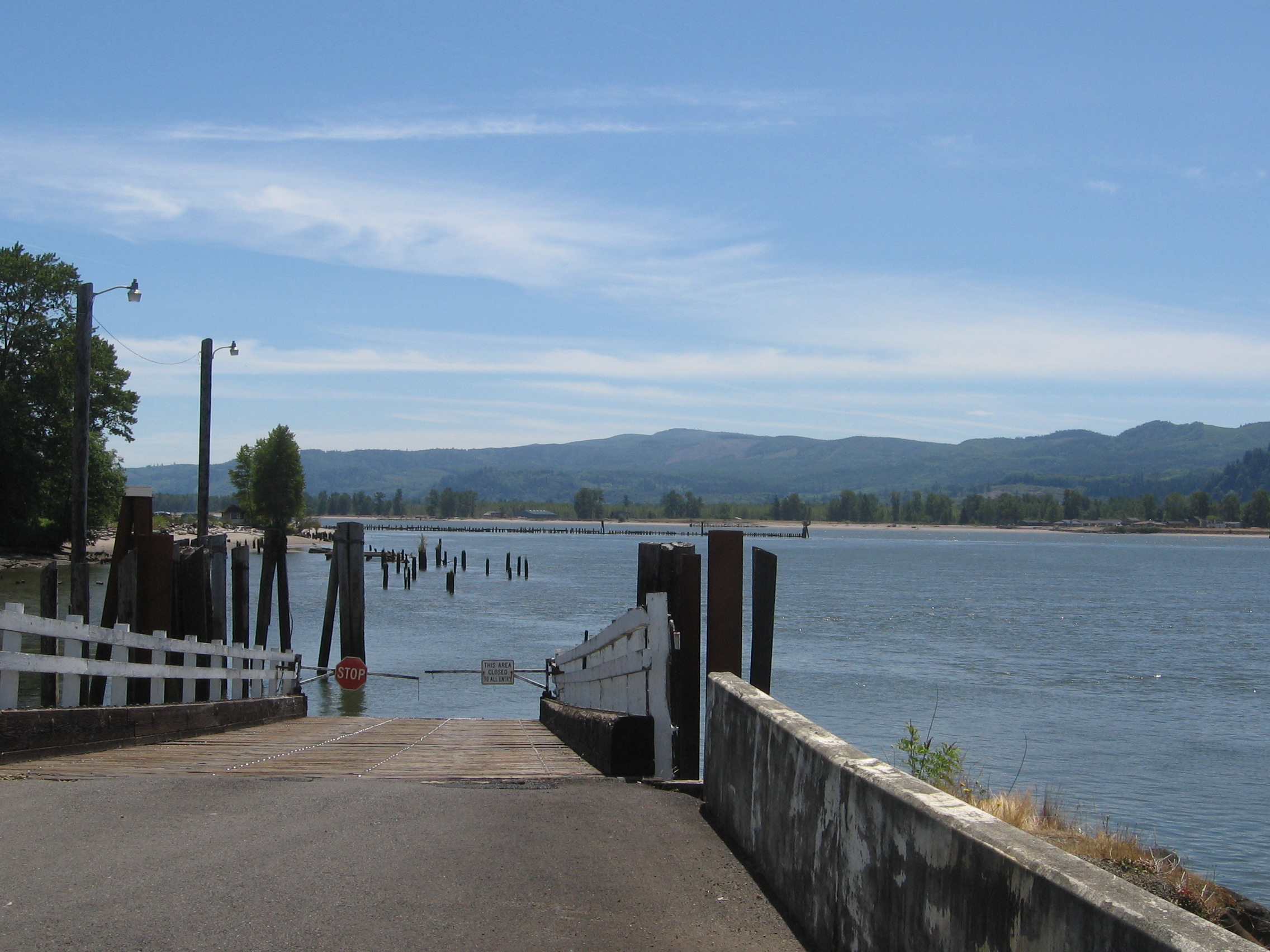 Wahkiakum County ferry dock